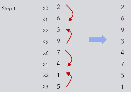 x0 และ x1 เรียงตามลำดับจากน้อยไปมาก x2 และ x3 เรียงตามลำดับจากมากไปหาน้อย